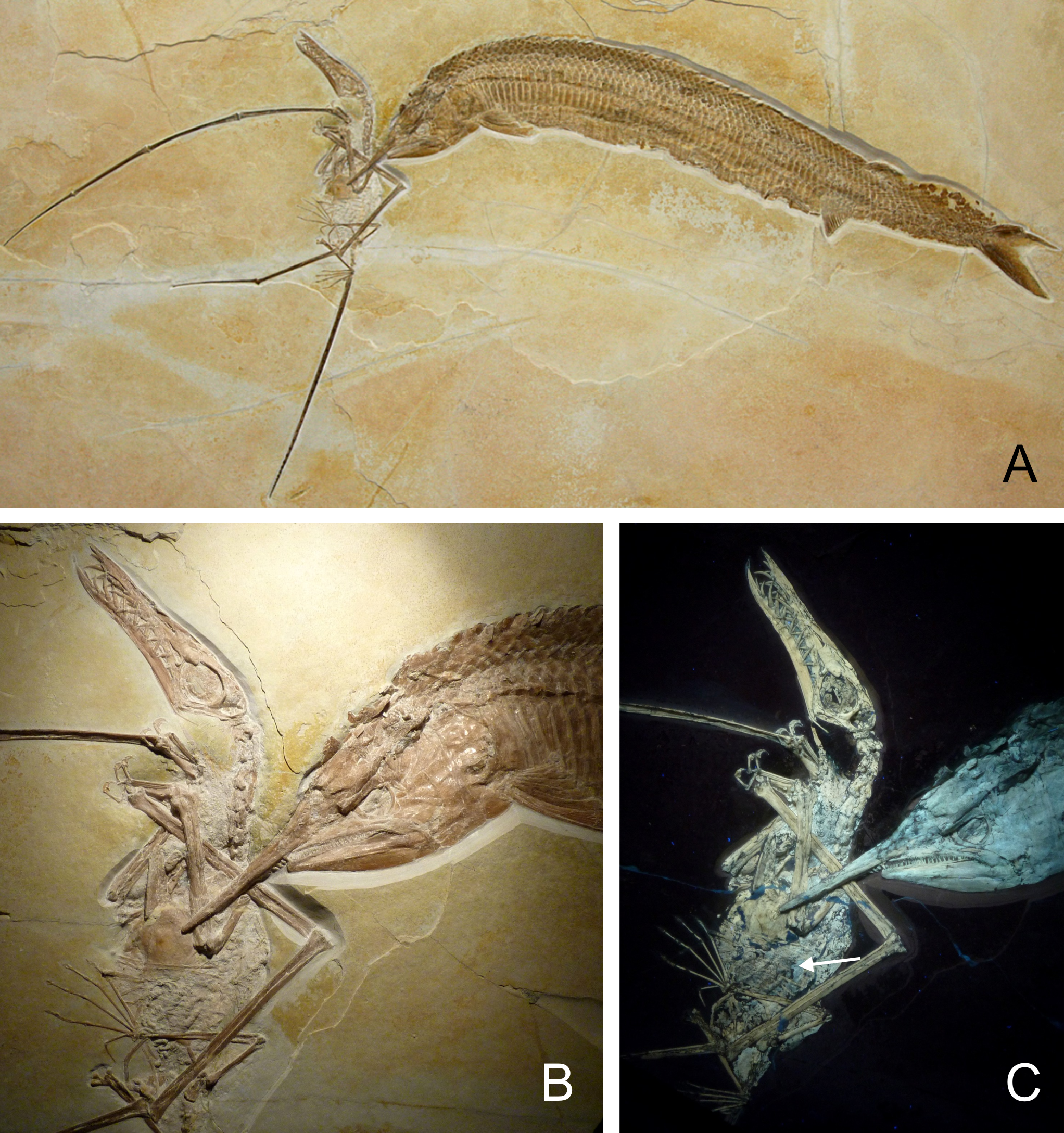 Photograph of specimen WDC CSG 255, the pterosaur Rhamphorhynchus with remains of a small fish (?Leptolepides) in its pharynx, trapped in the jaws of the large fish Aspidorhynchus (from Frey & Tischlinger, 2012, for details see source data below).Original figure caption: Fossilized hunting scene;A) specimen WDC CSG 255: an Aspidorhynchus and a Rhamphorhynchus in fatal encounter,B) section of the specimen showing the way both animals are entangled.C) A similar section under UV light, the arrow marks intestinal contents consisting of digested fish remains.Note that the jaws of the Aspidorhynchus did not get hold of a bone, but apparently of the flight membrane of the left wing. The distorted left wing finger is suggestive for this.